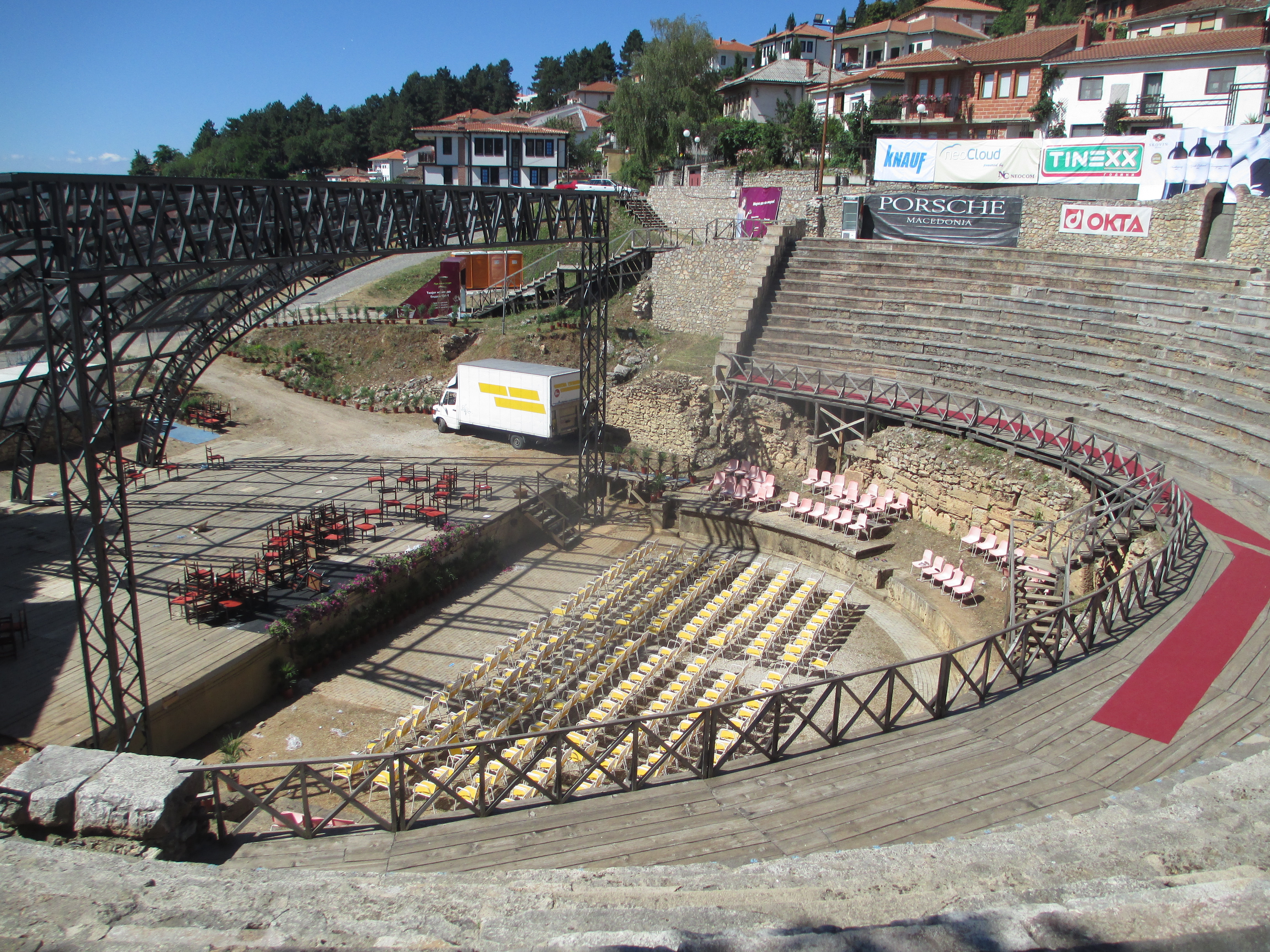 Ancient Greek theatre (Ohrid)